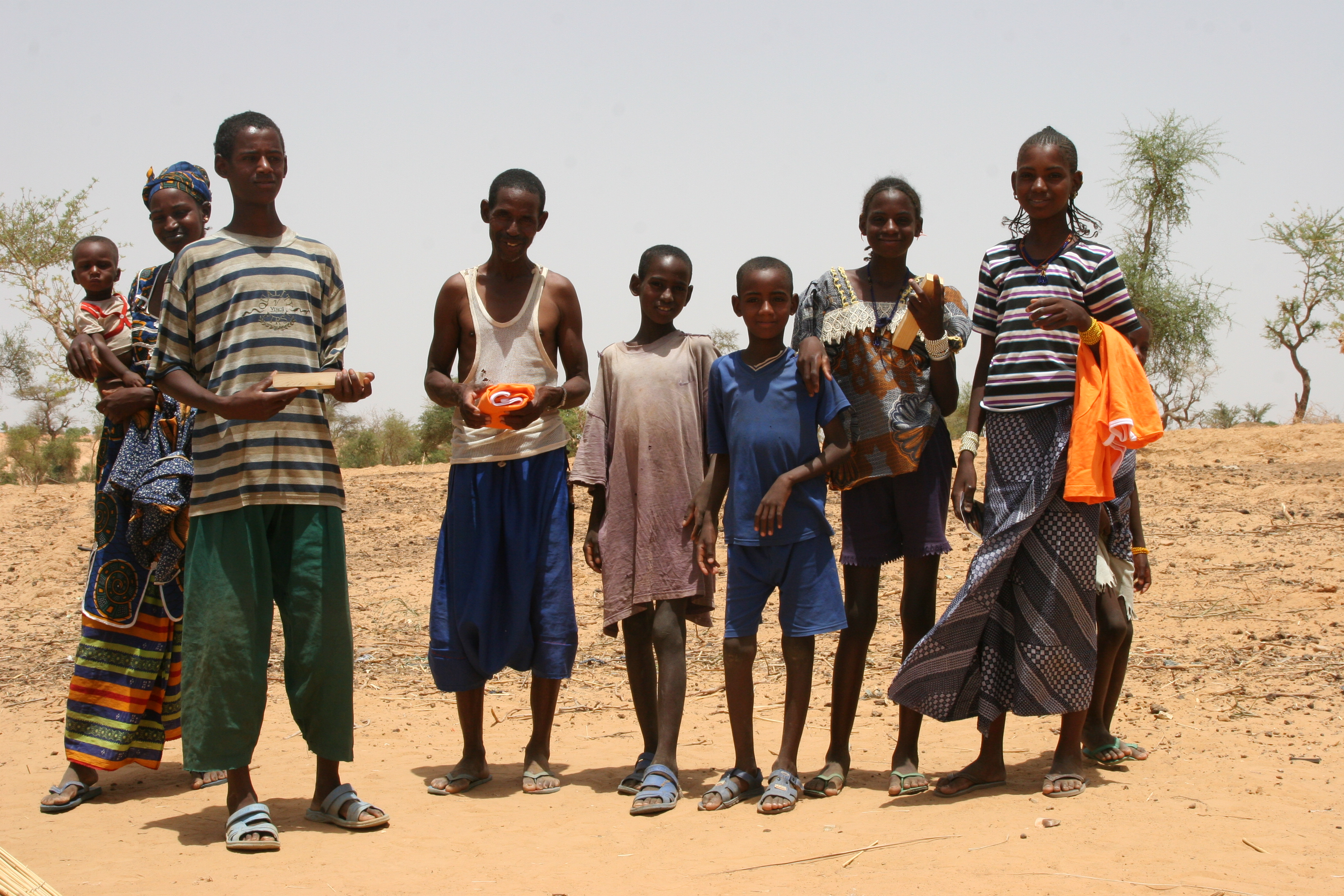 Fulani family from Mali.